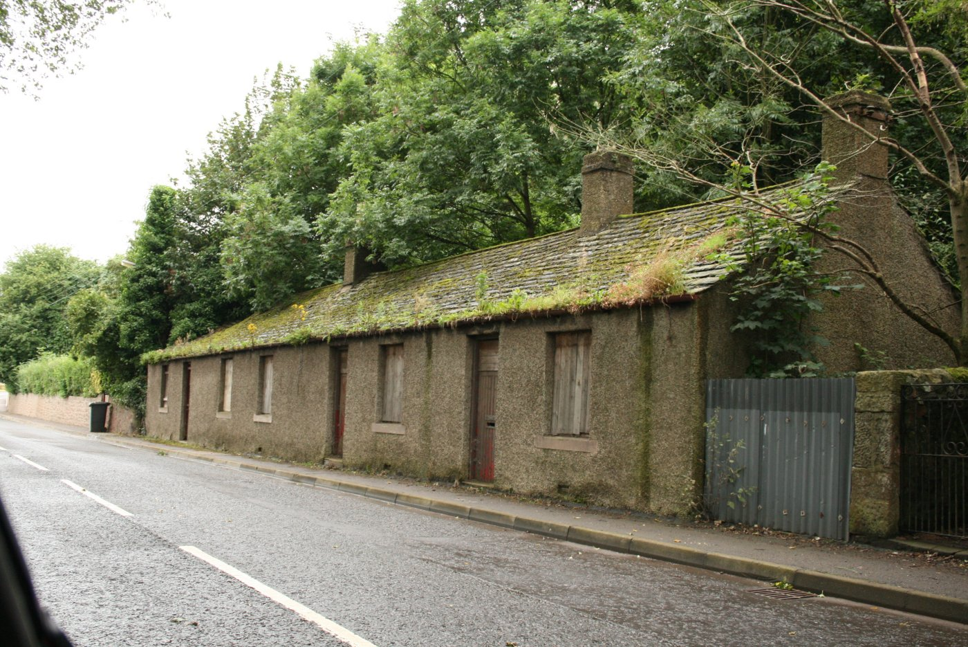 Barry road old house.